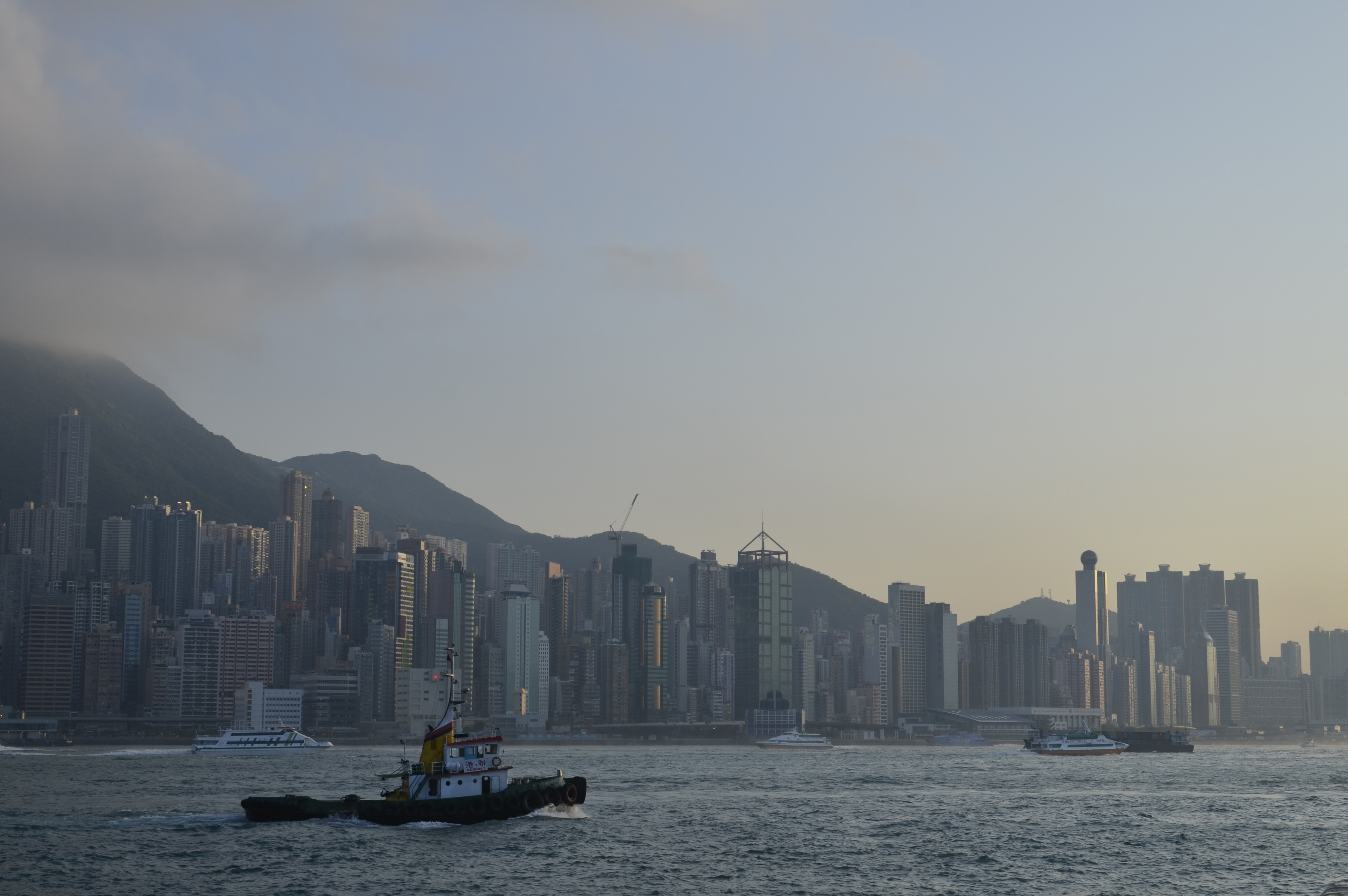 Hong Kong viewed from the International Commerce Centre, Kowloon. Sheung Wan, Sai Wan, Kennedy Town in background.